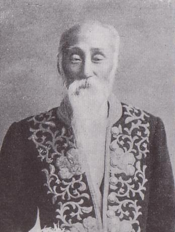 Kim Yun-sik